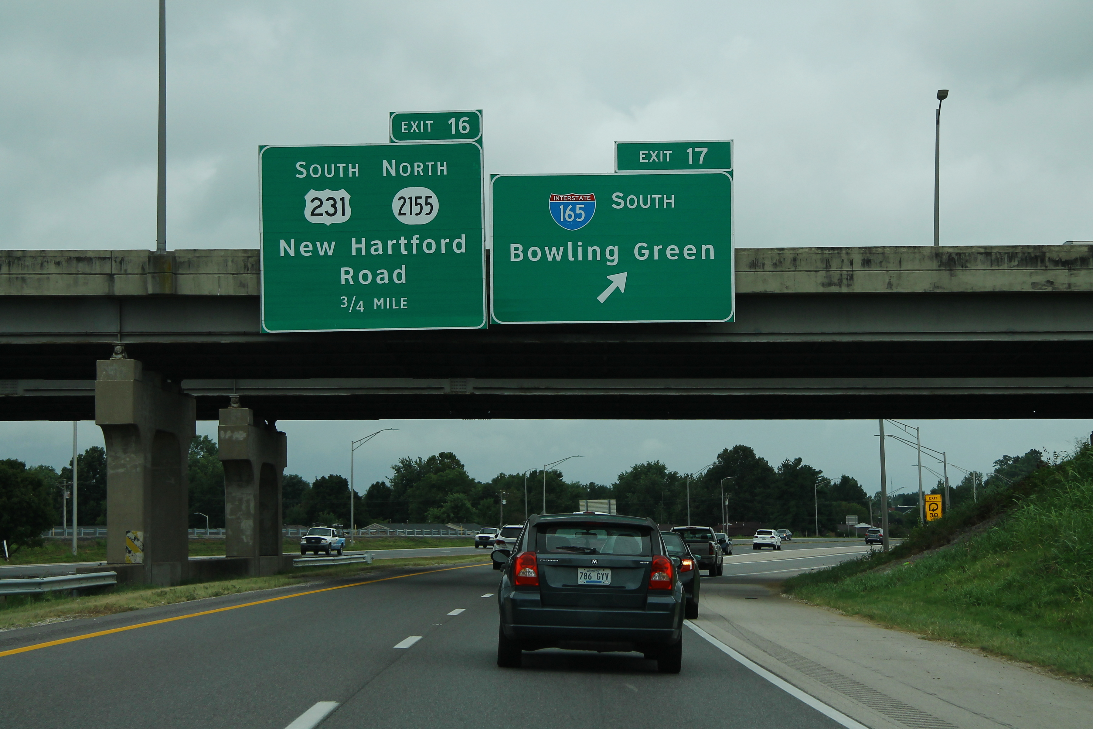 US Route 60 exit 17 for I-165 south